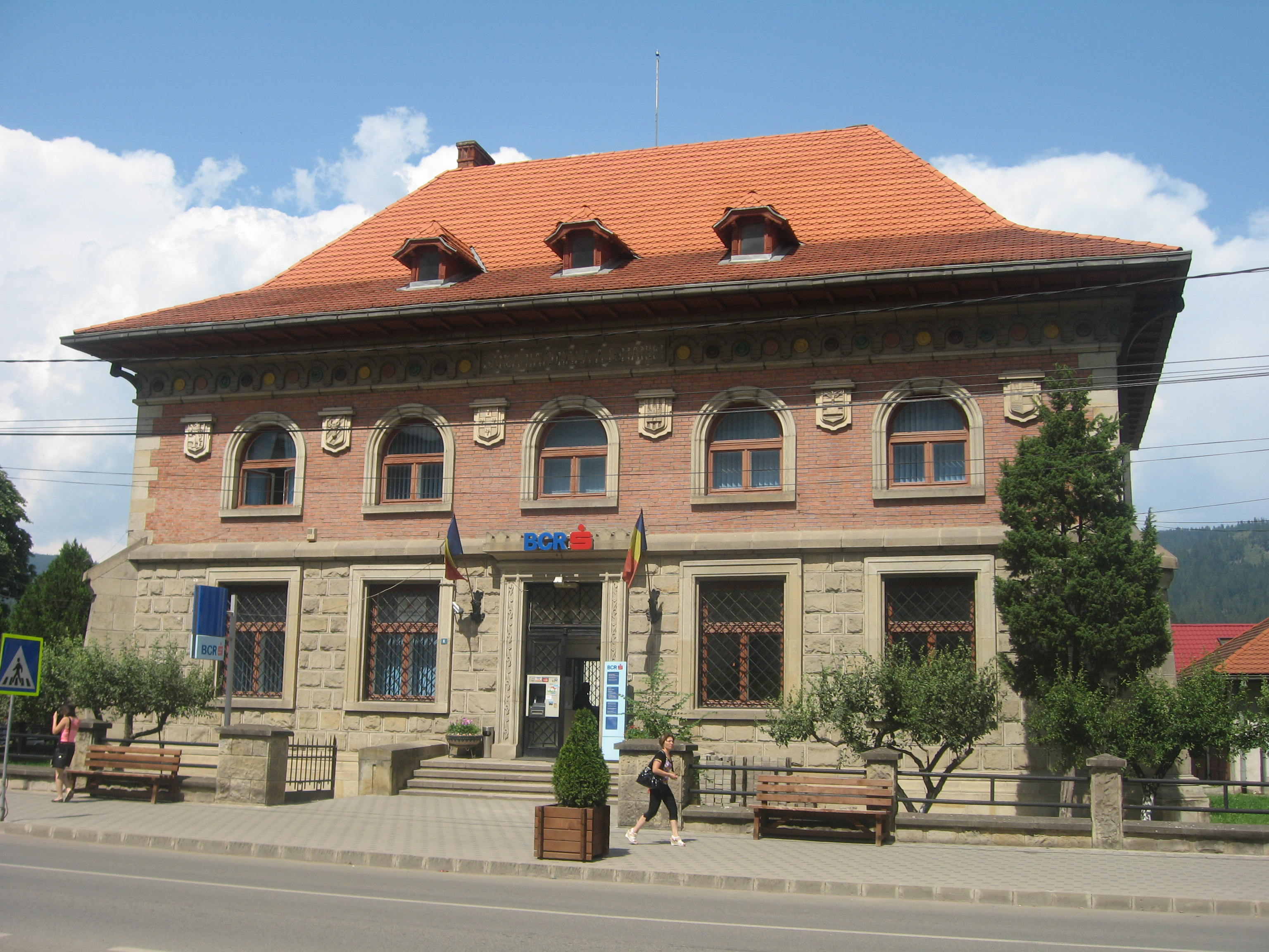 The former building of the National Bank of Romania in Câmpulung Moldovenesc, Romania